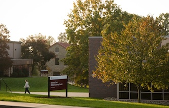 Student walking from Cairn University's Biblical Learning Center